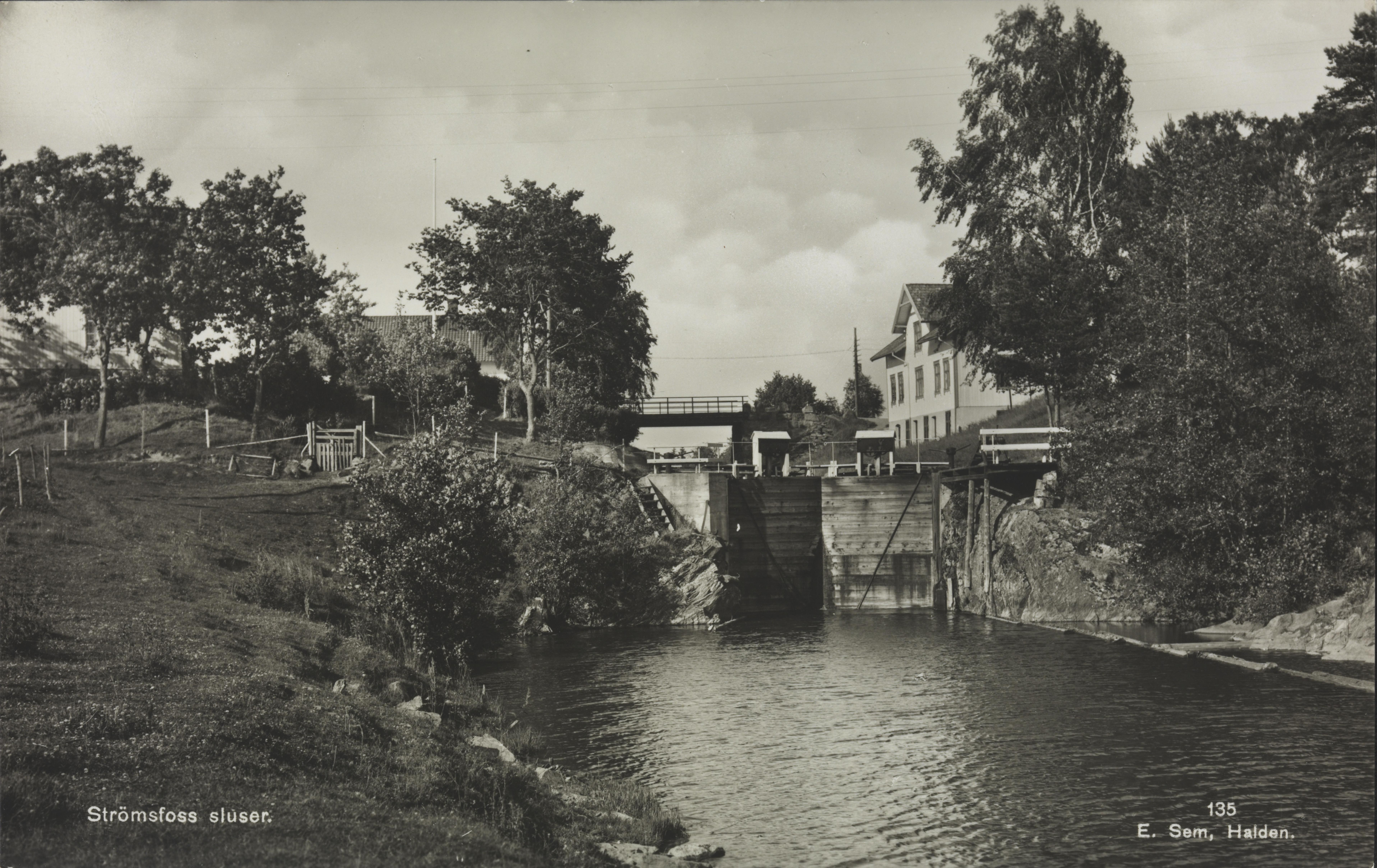 Strømsfoss locks in Haldenkanalen, Aremark, Østfold, Norway. Image from the Nasjonalbiblioteket collection